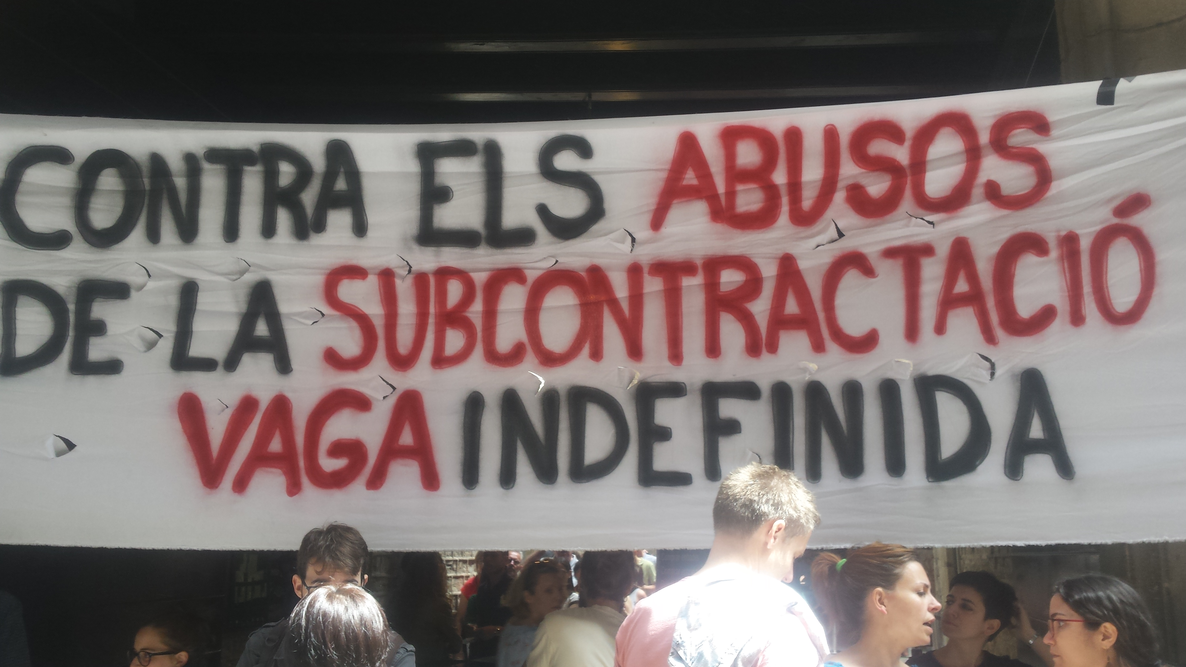 Photo of a banner outside the Picasso Museum